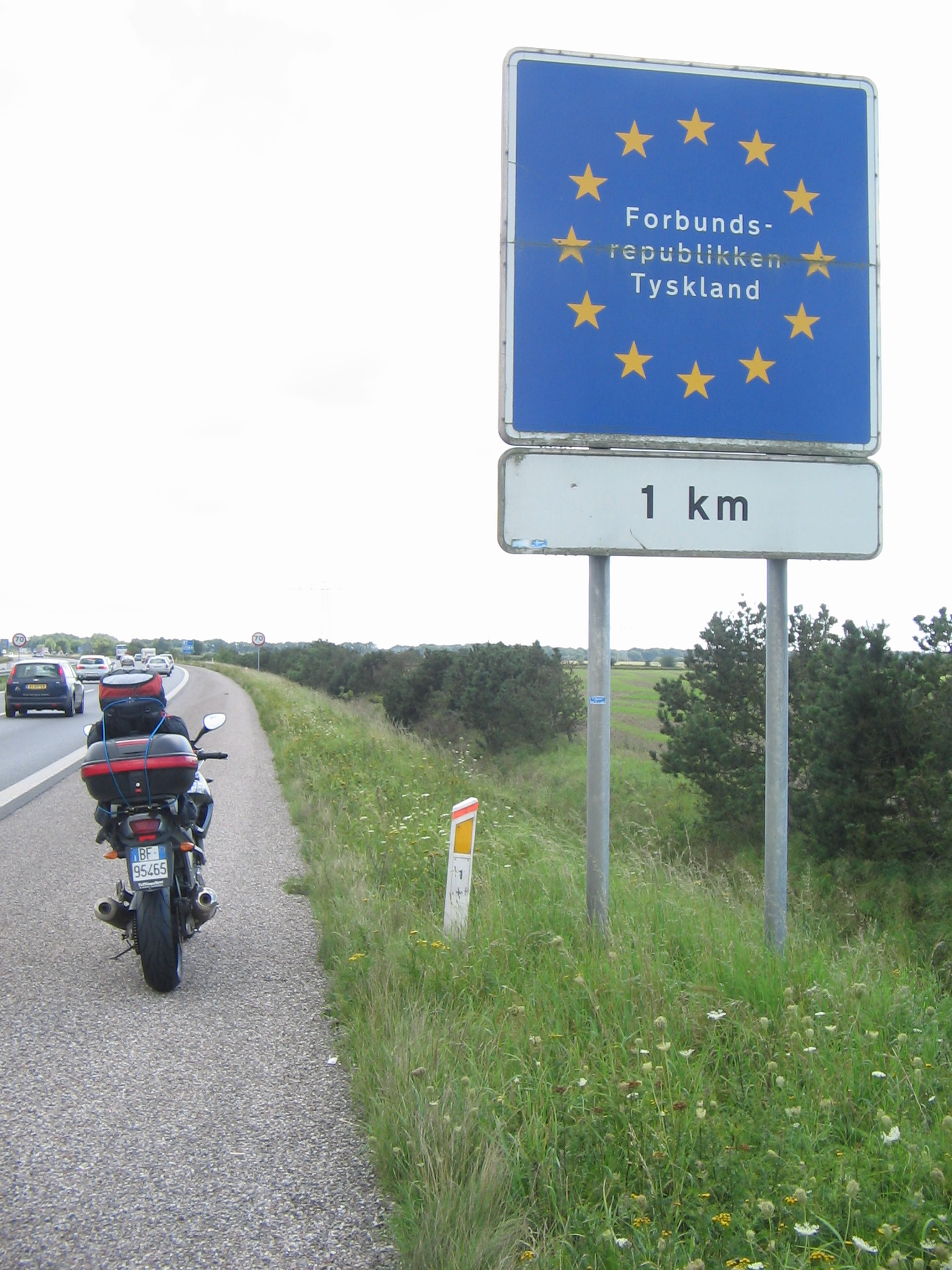 Danish–German border